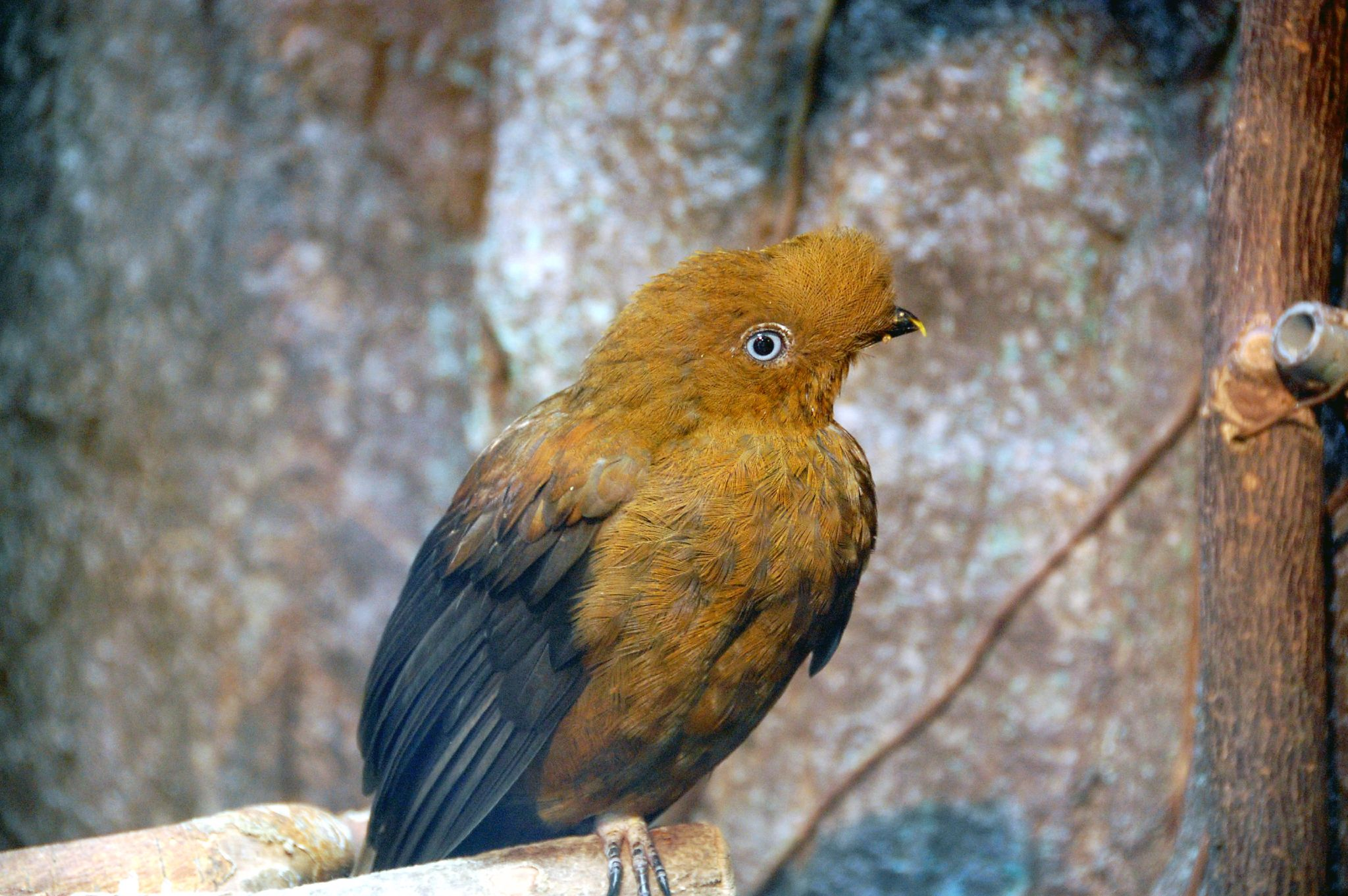 A female Andean Cock-of-the-rock at Ueno Zoo, Japan.